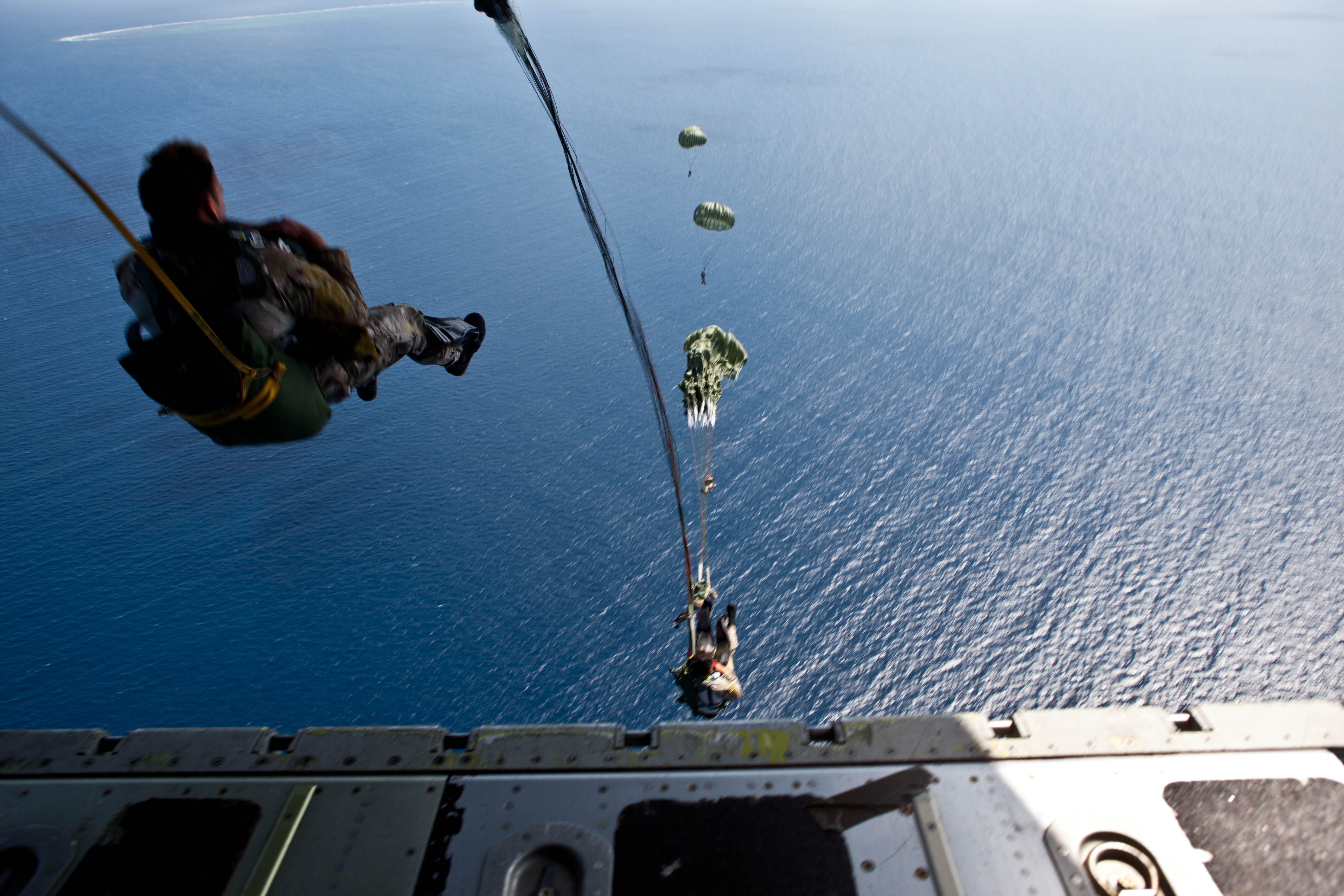 Soldiers execute static-line jumps out of a Marine-piloted KC-130J Hercules aircraft March 17 over the Tsuken Jima water drop zone near White Beach Naval Facility. The soldiers are with 1st Battalion, 1st Special Forces Group (Airborne